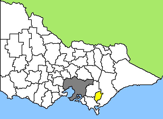 Map of Victoria/Australia, LGA of Latrobe City highlighted